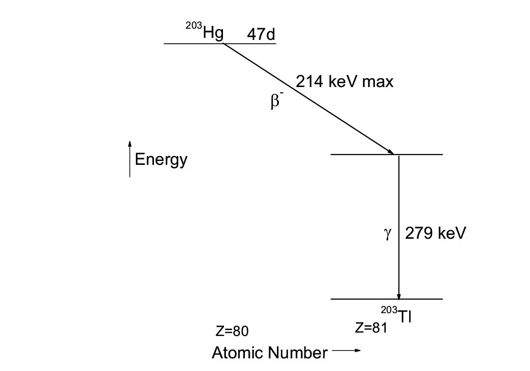 Decay scheme describing the decay of 203Hg to 203Tl